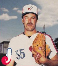 Professional baseball player John Hoover